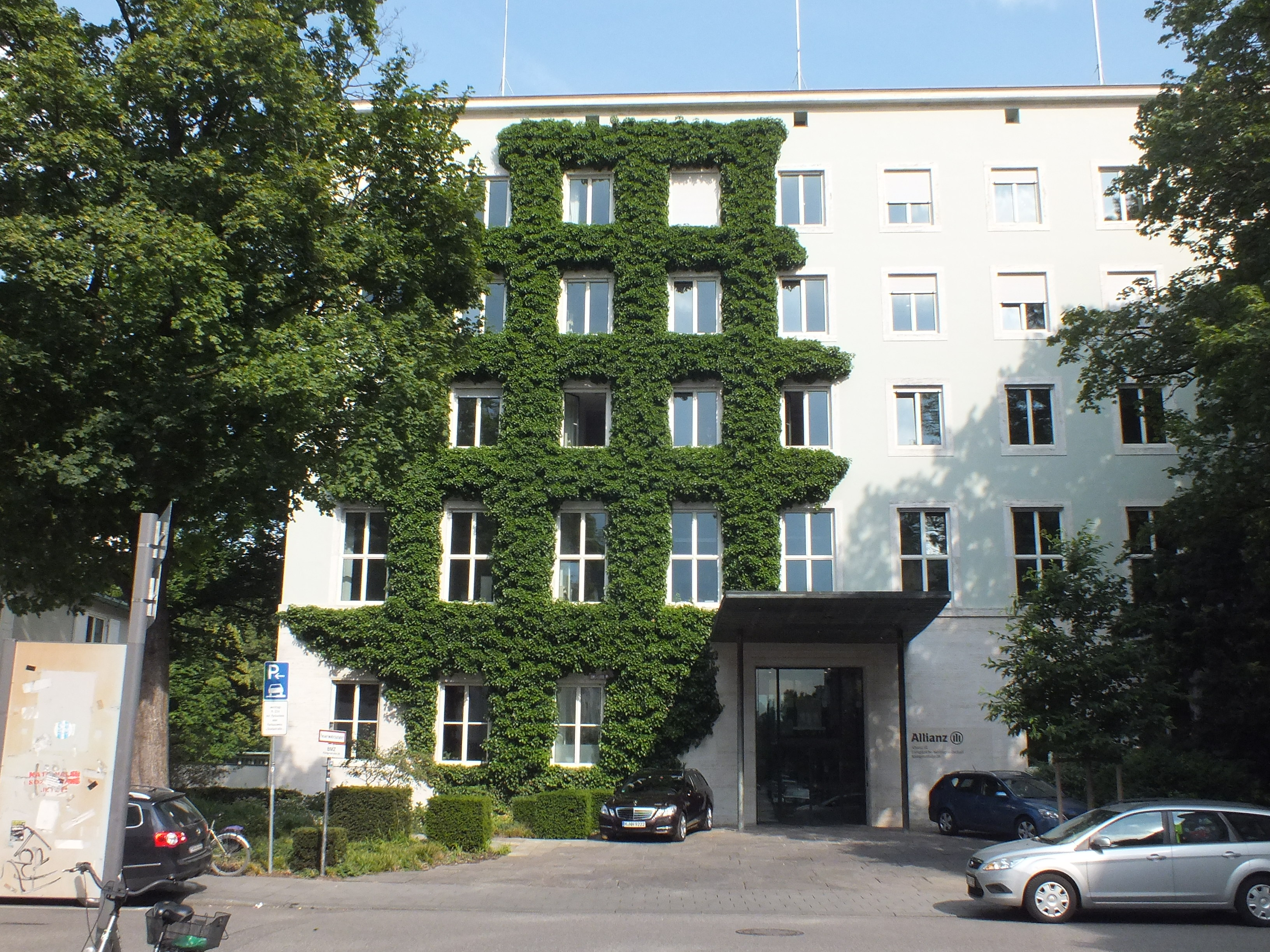 Munich Königinstraße